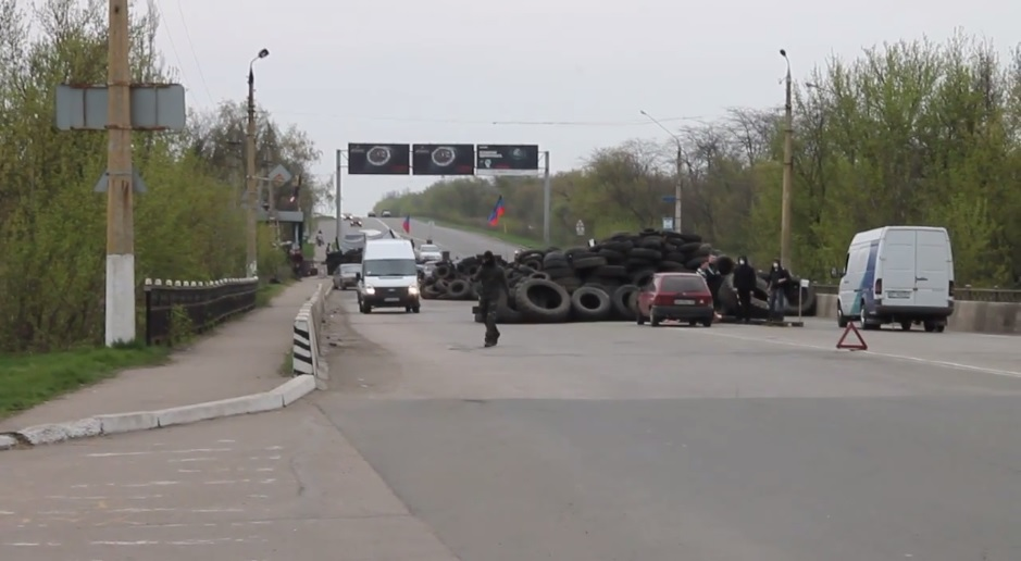 Kramatorsk checkpoint of pro-Donetsk self-defense forces.